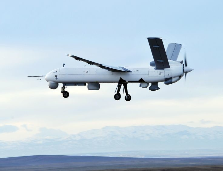 ANKA-B MALE